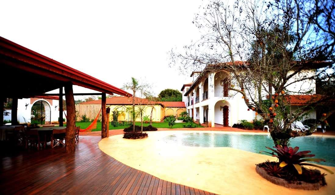 Este Hotel que se encuentra ubicado sobre la ruta Nacional 12 , km 3 , Puerto Iguazú, Misiones, es un alojamiento único en la Misiones ECO-SUSTENTABLE, rodeado de flora y fauna, es un Hotel Temático, inspirado en las obras realizadas por el arquitecto Alejandro Bustillo El pueblito